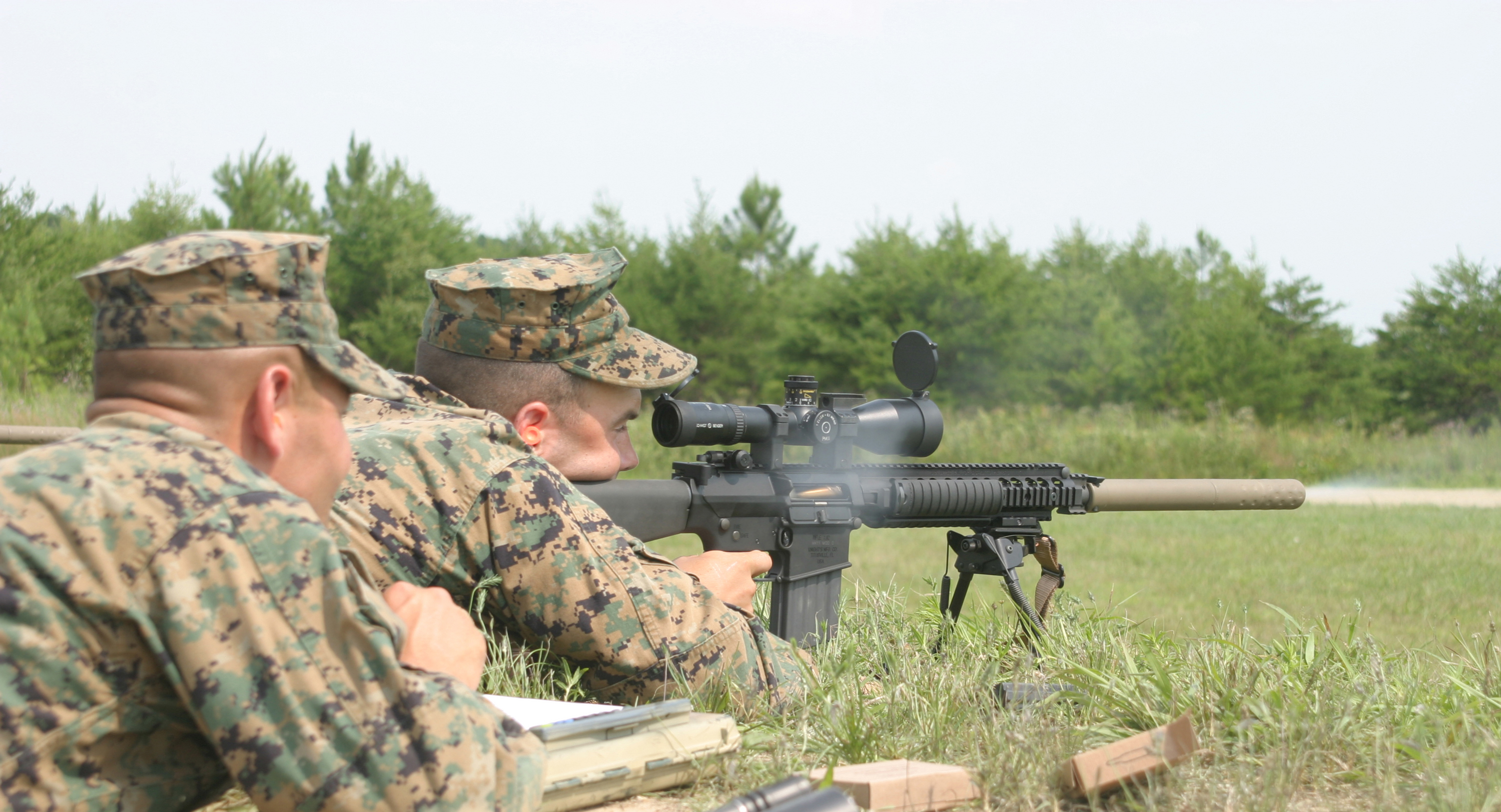 Summary Marines of Scout Sniper Platoon, Battalion Landing Team 2nd Bn., 2nd Marine Regiment, shoot the MK-11 rifle, newest sniper rifle to the Marine Corps, for the first time during training at Fort A.P. Hill, Va., July 9, 2006. The Marines are training with the 26th Marine Expeditionary Unit for a planned deployment in early 2007. Photo by: Lance Cpl. Patrick M. Johnson-Campbell Photo ID: 200679231438 Submitting Unit: 26th MEU Photo Date:07/09/2006